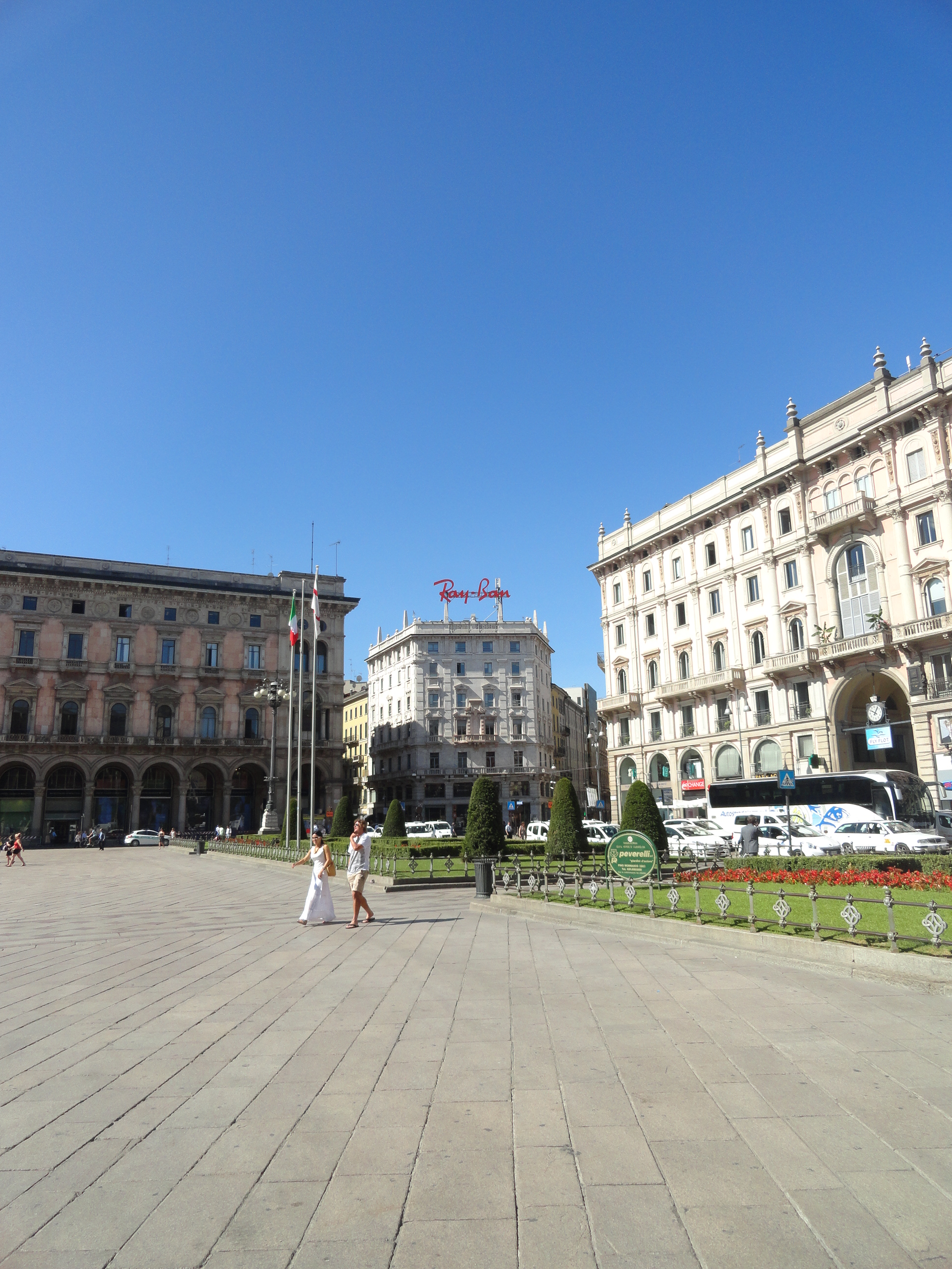 A building with Ray Ban commercial in Milan, Italy. Milan is famous as one of the fashion capitals in the world. Check out our blog at